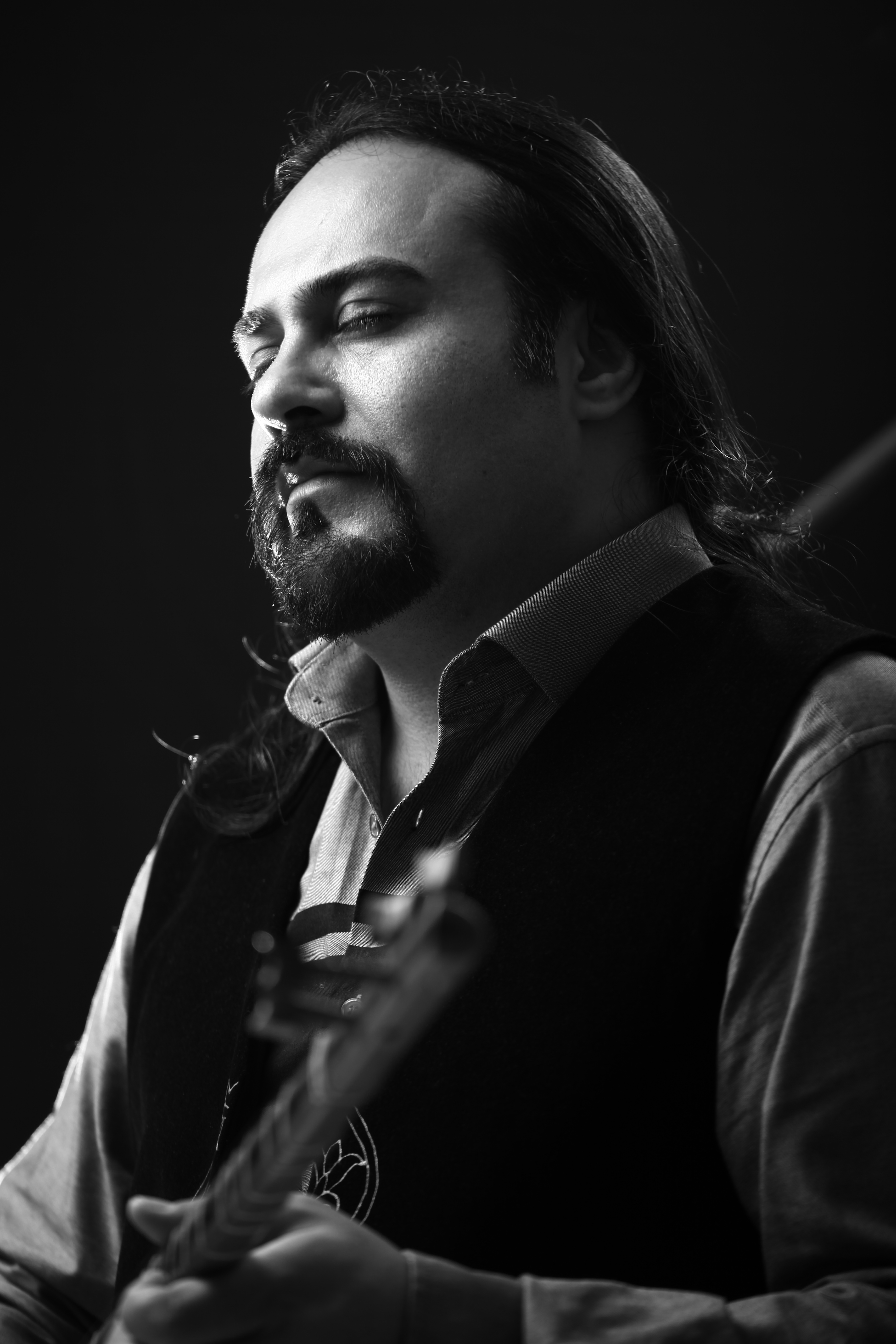 Hazhir MehrAfrouz; Iranian Musician; Photo by: Farhad Bazzazian; summer 2017